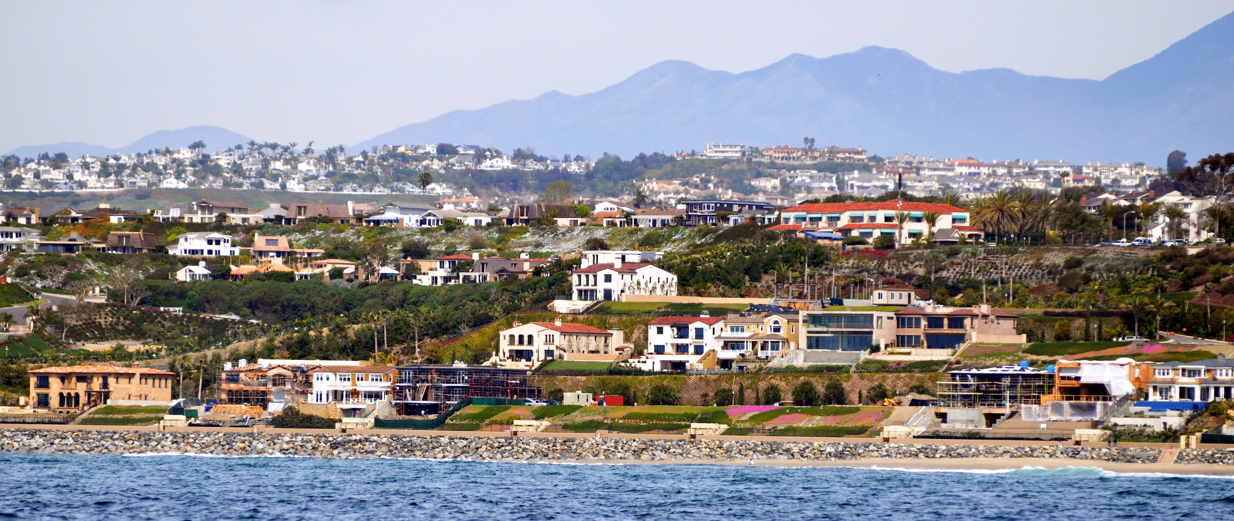 Monarch_Beach,_Dana_Point,_California_2_photo_D_Ramey_Logan.jpg